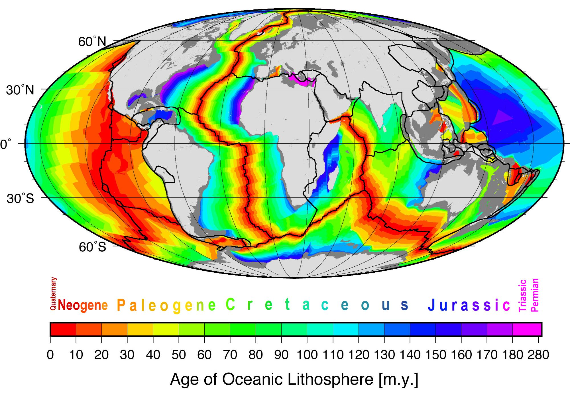 Age of oceanic lithosphere